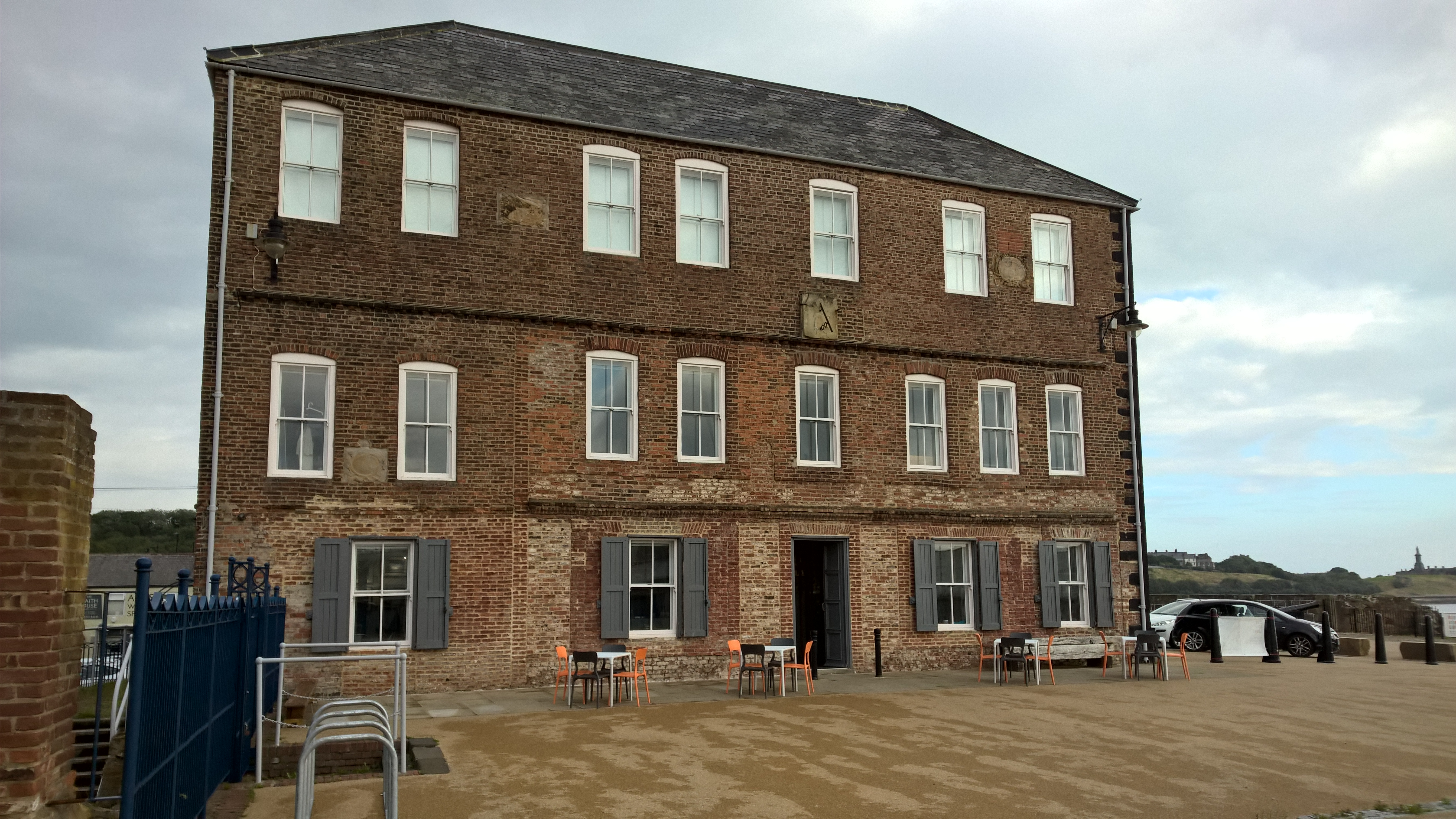 The Old Low Light was replaced by the New Low Light in 1808. In 1830 the building was remodelled, becoming an almshouse